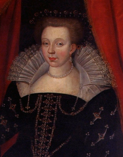 Portrait of Catherine of Cleves (1548-1633)